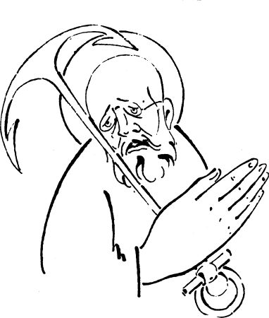 Eleftherios Venizelos' sketch from Themos Anninos